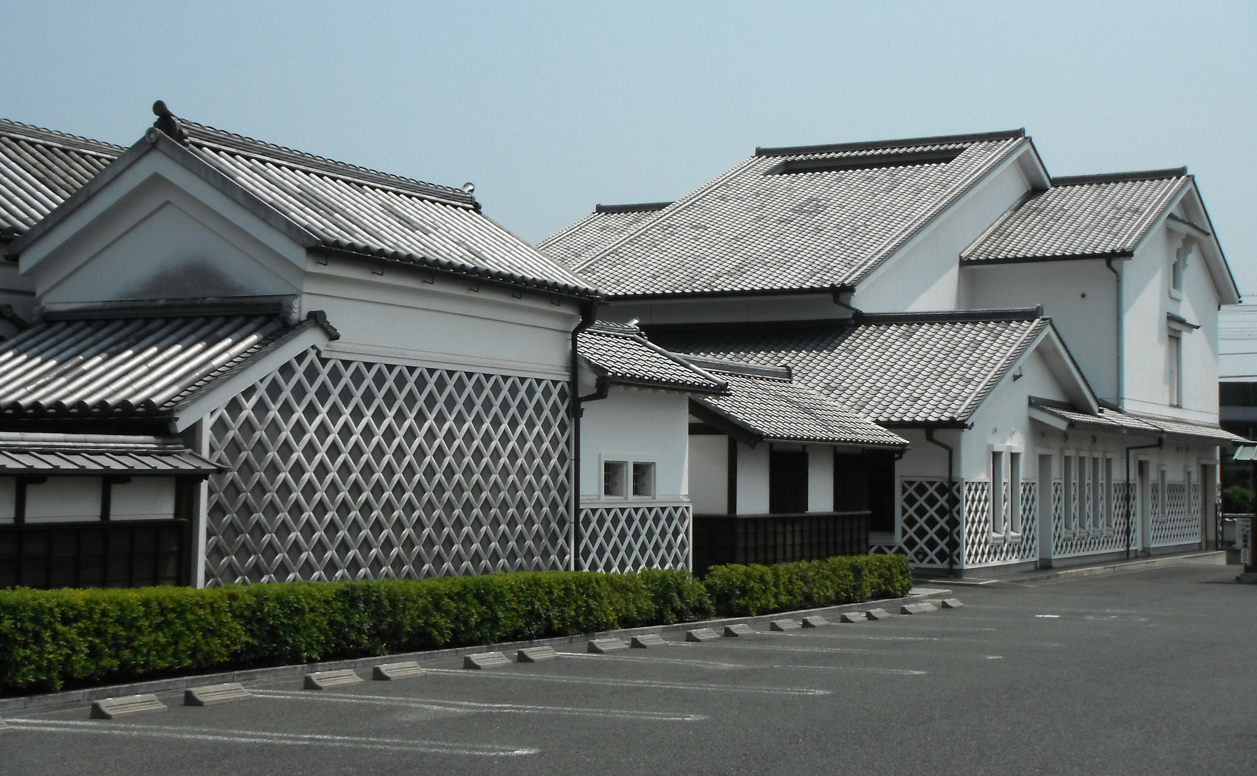 Toyohashi Futagawa-Inn Museum